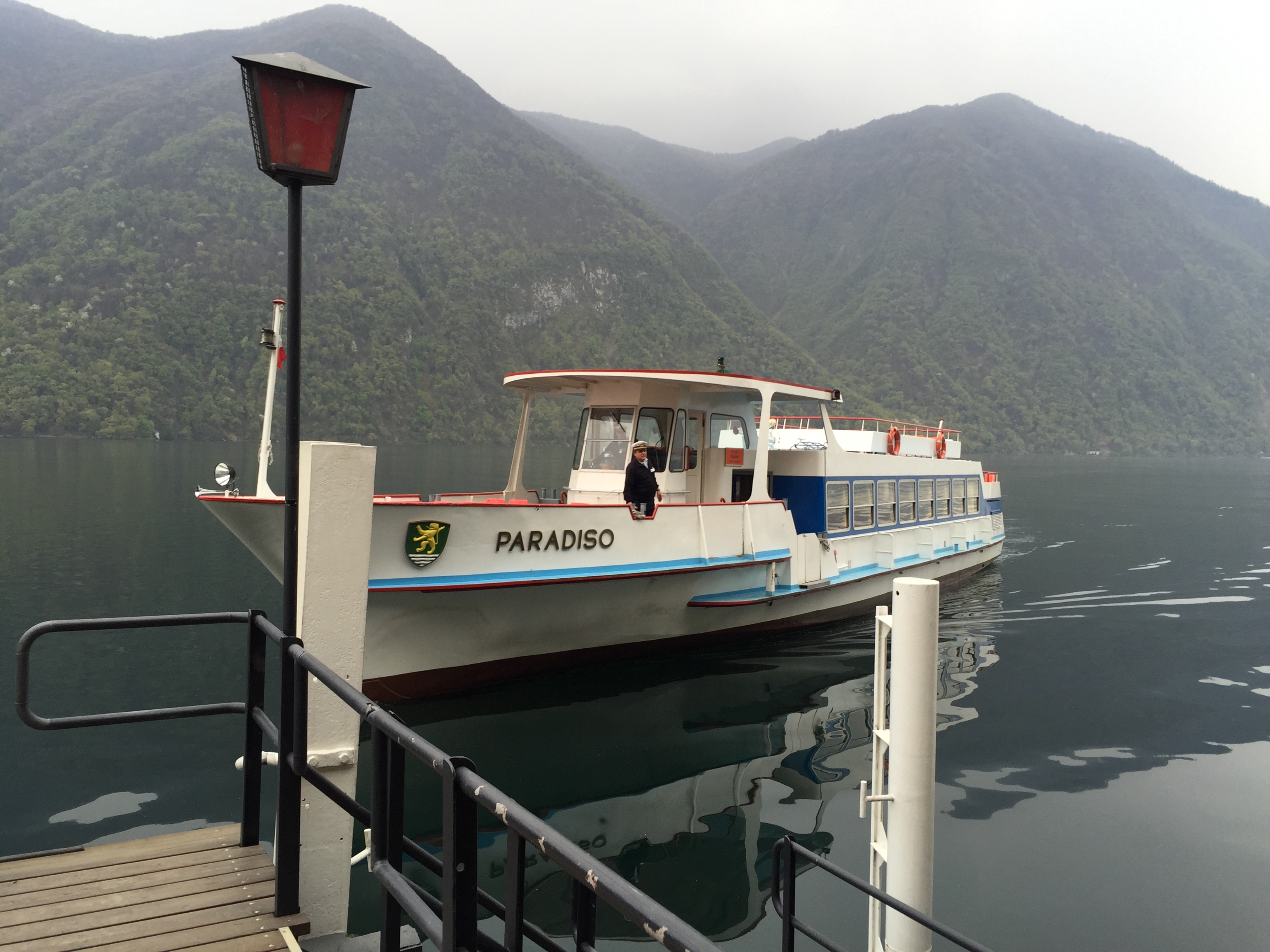 Ship Paradiso at Gandria (2016)